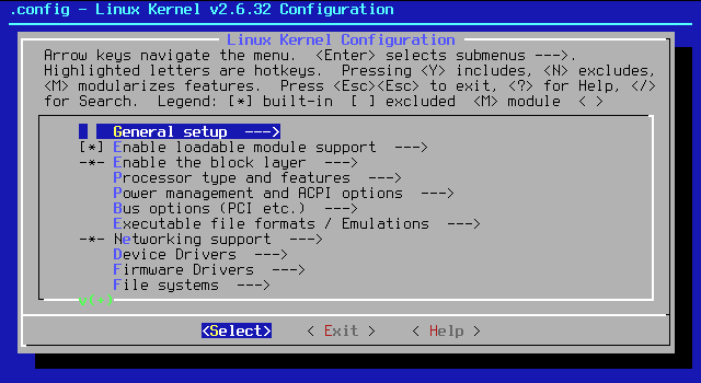 ncurses-based menuconfig, an application used to configure the Linux kernel before compiling, seen here in Xterm.